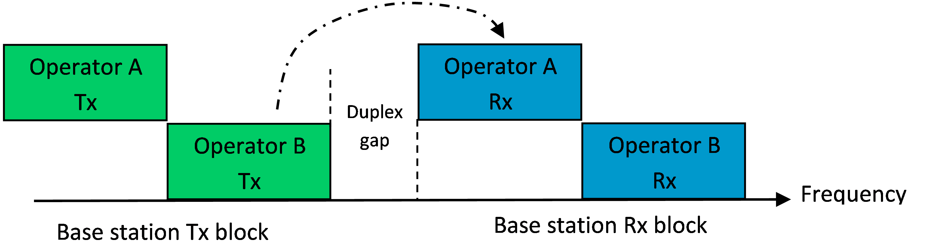 Interference from other network in adjacent channel in the APT band plan